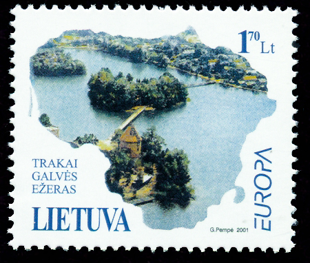 Europa.Water - Natural Treasure. Date of issue: 14th April 2001 Designer: G. Pempe Paper: coated Printing process: offset Perforation: comb 13 : 13 1/4 Size of a stamp: 35,50 x 30 mm Size of a Miniature Sheet: 97 x 174 mm Miniature Sheet composition: 10 (2 x 5) stamps. Printing run: 500.000 stamps or 50.000 Miniature Sheets Michel catalogue numbers: 756-757 1,70 L. multicoloured. Trakai. Lake Galve